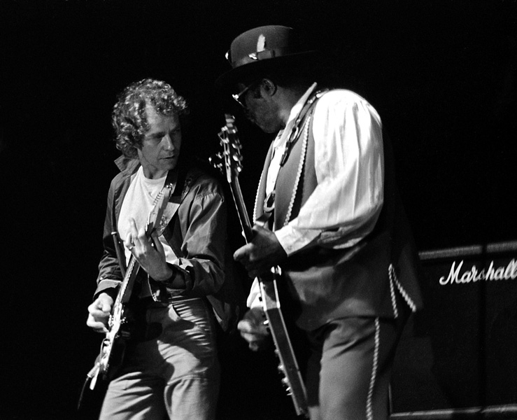 Eric Bell & Bo Diddley 27th February 1984. Performing at the "Sajam" venue in Novi Sad, Yugoslavia (now Serbia); host city of "Exit Festival". With the band called "Mainsqueeze" featuring Eric Bell (ex-Thin Lizzy) on guitar and Dick Heckstall-Smith (ex-Colosseum) on saxophone.